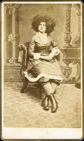 A "Circassian beauties", a sideshow attraction from ca. 1870.